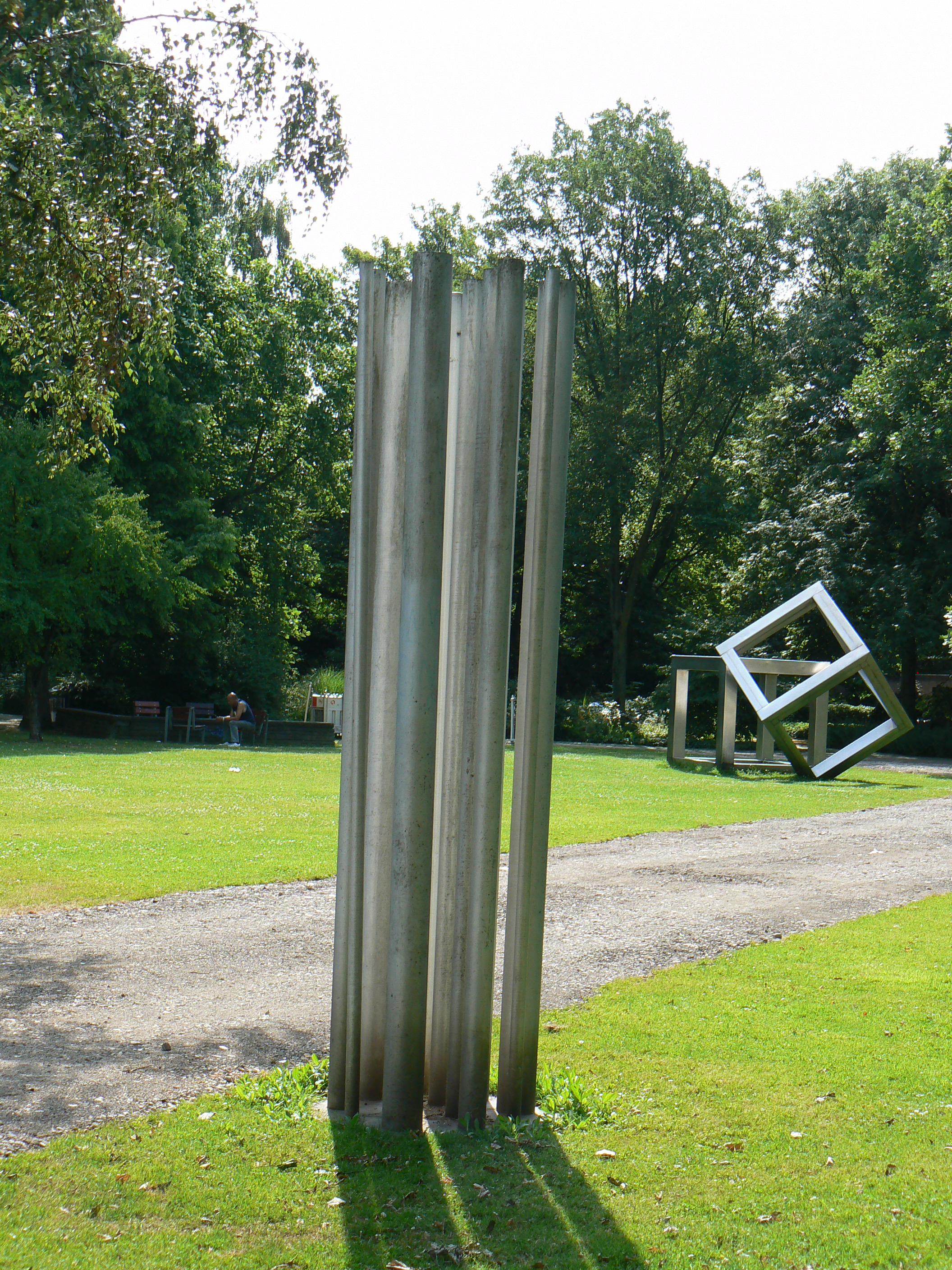 sculpture Plastik I/67 (1967) by Ernst Hermanns in Duisburg/Germany